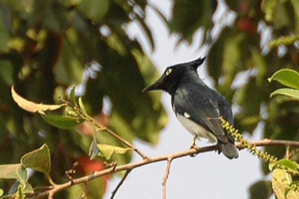 Black_and_white_flycatcher Bias musicus Bigodi Swamp, Uganda